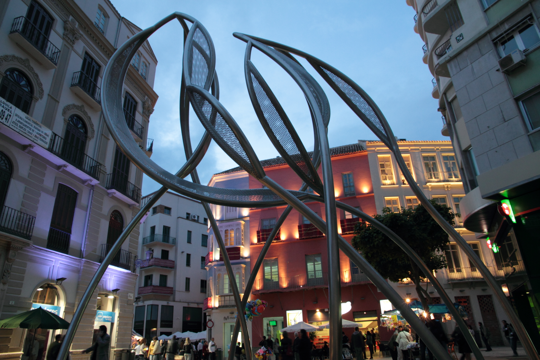 Del Siglo Square, Málaga, Spain.